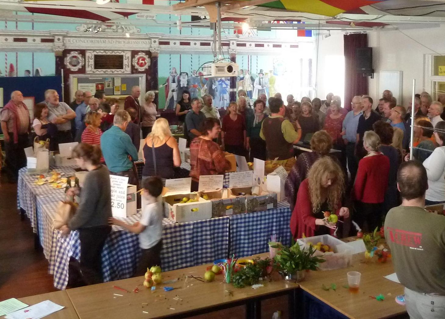 Chepstow Apple Day celebrations, October 2014 Obscure apple varieties for sale, apple carving, apple peeling contests and the inimitable Karl Daymond leading the singing club